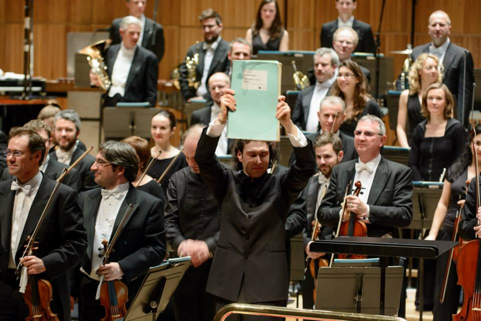 Credit foto: Cristian Alexa